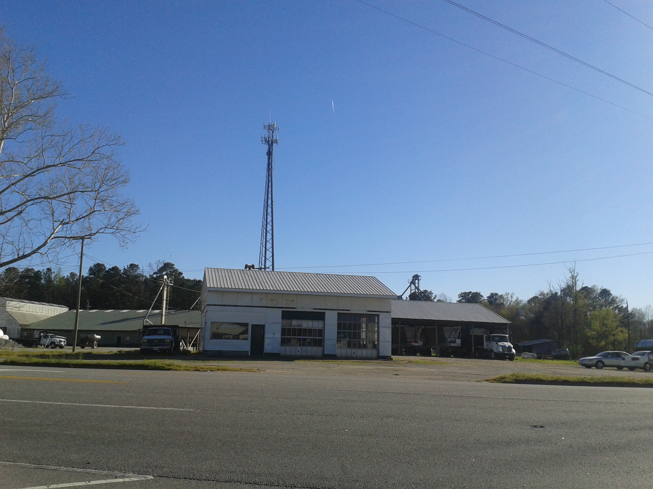 Buildings along General Mahone Blvd., US Roue 460, on the outskirts of Ivor, Virginia